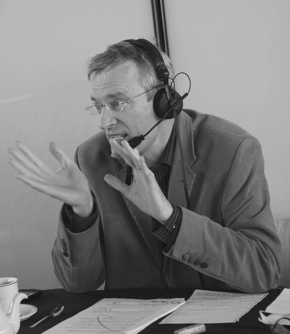 Jeremy Vine at the Senedd, Cardiff Bay, Wales. 1st March 2016.